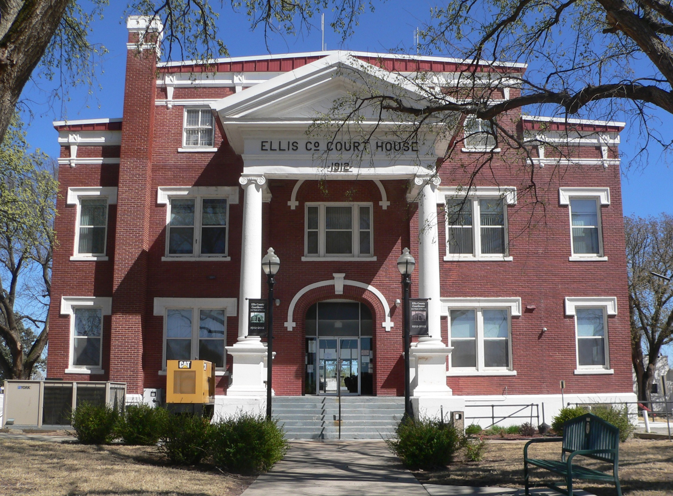 Ellis County courthouse in Arnett, Oklahoma; seen from the west.